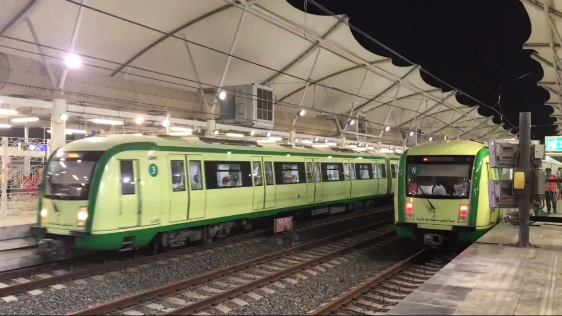 CRRC Changchun Type A for MMMSL train service